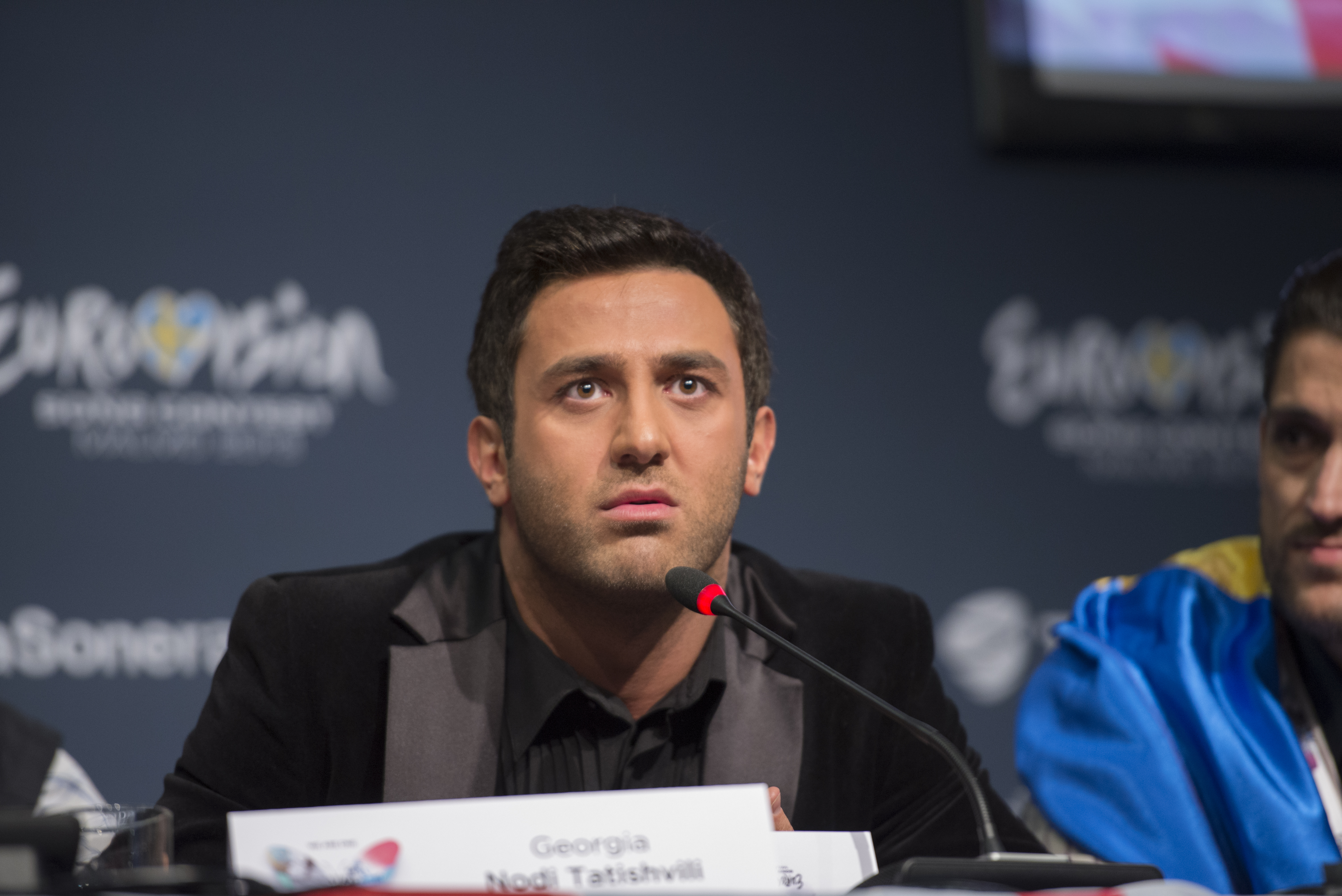 Nodiko Tatishvili and Sopho Gelovani at a press conference during the Eurovision Song Contest 2013 Malmö. (Help translate this text)